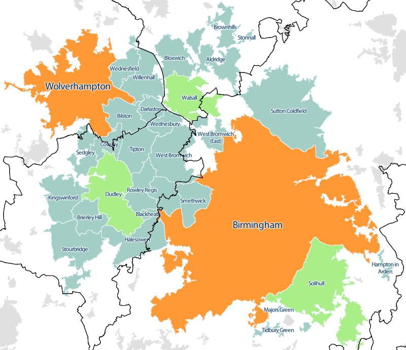 The West Midlands Built-Up Area as at the 2011 Census, with overlay of the 2007 Travel to Work Areas. Cities are highlighted in orange, and towns with local authority districts named after them highlighted in green.